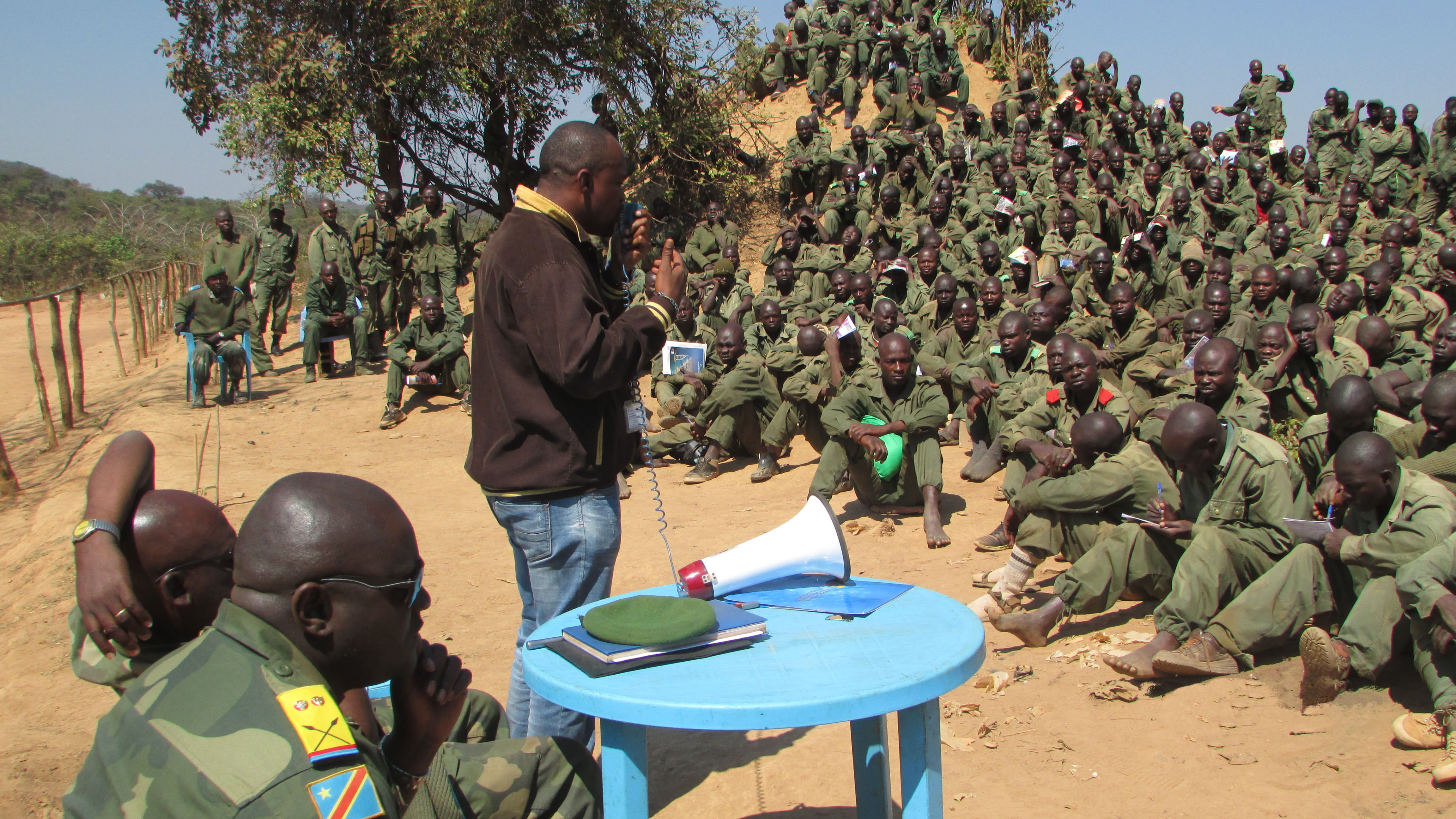 Mura, Haut Katanga Province, DR Congo: The MONUSCO Sections in charge of Security Sector Reform, Protection of women, HIV/AIDS, Child Protection, and Human Rights, in collaboration with the Civic Education Service of the DR Congo Armed Forces are sensitizing almost 11,000 newly-recruited soldiers of the DR Congo Armed Forces in Mura Military Training Centre on Civic Education and behavioral change, in order to promote peace and security in the DRC, reducing human rights violations of vulnerable populations committed by uniformed personnel.